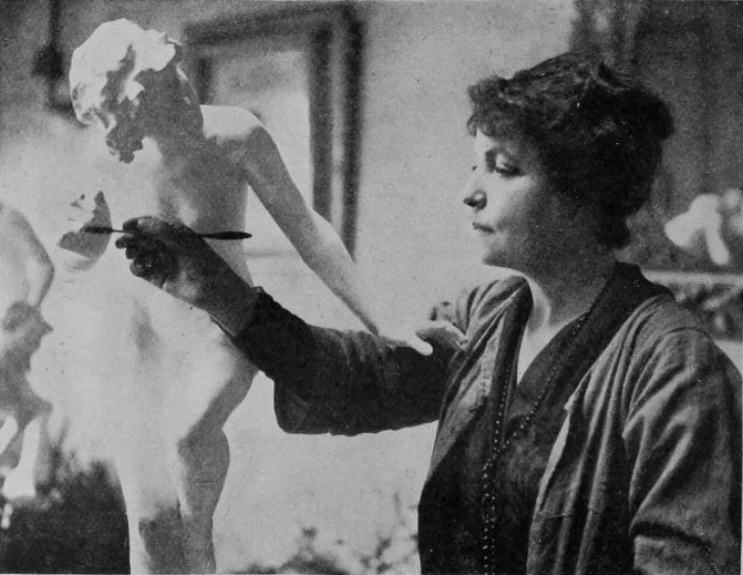 Sculptor Clio Bracken at work